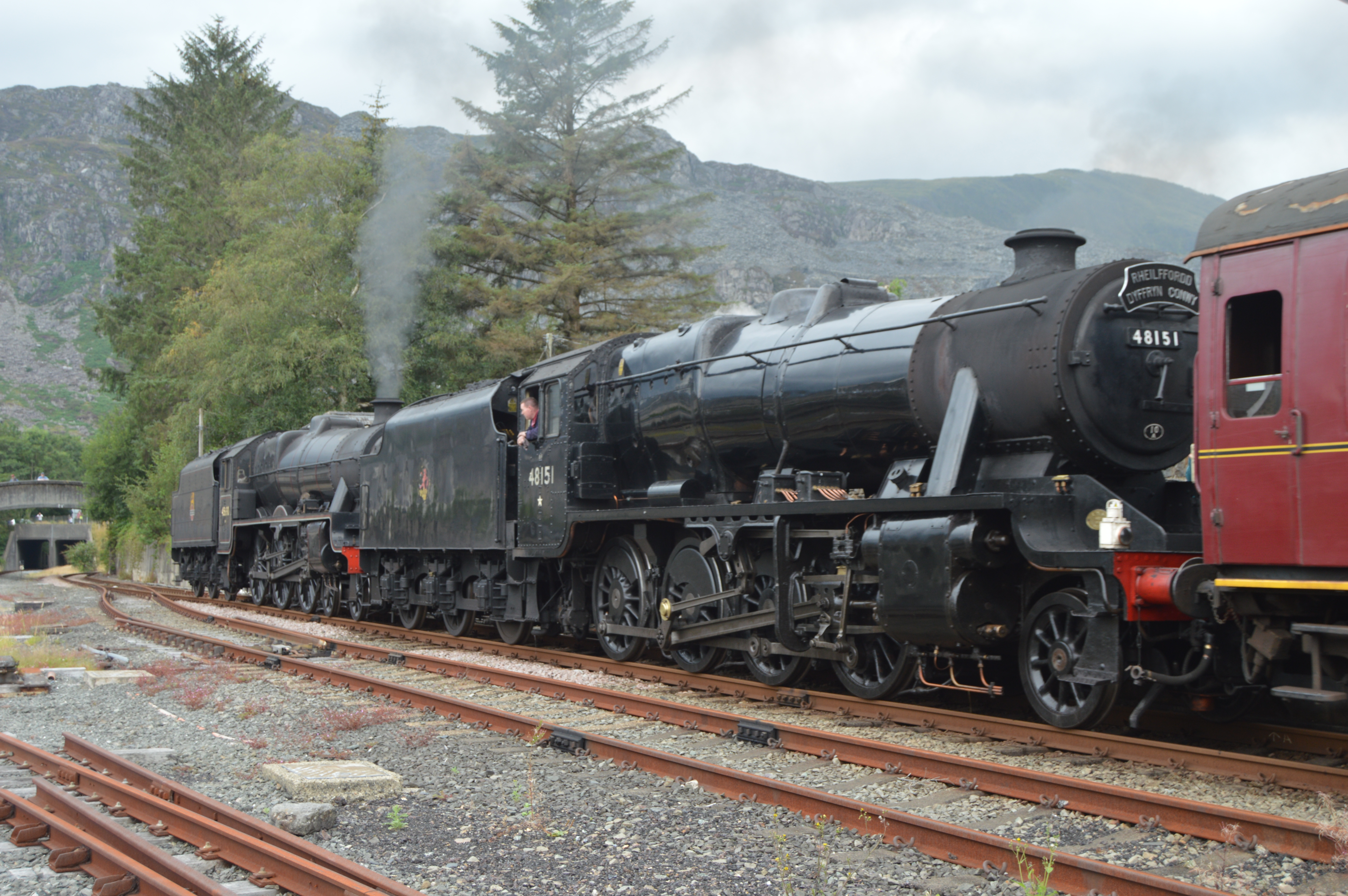 LMS 8F no 48151 & LMS Jubilee no 45690 Leander are shunting their empty coaches from the platform at Blaenau Ffestiniog after arriving from Chester via Llandudno Junction with "The Conwy Quest" railtour.